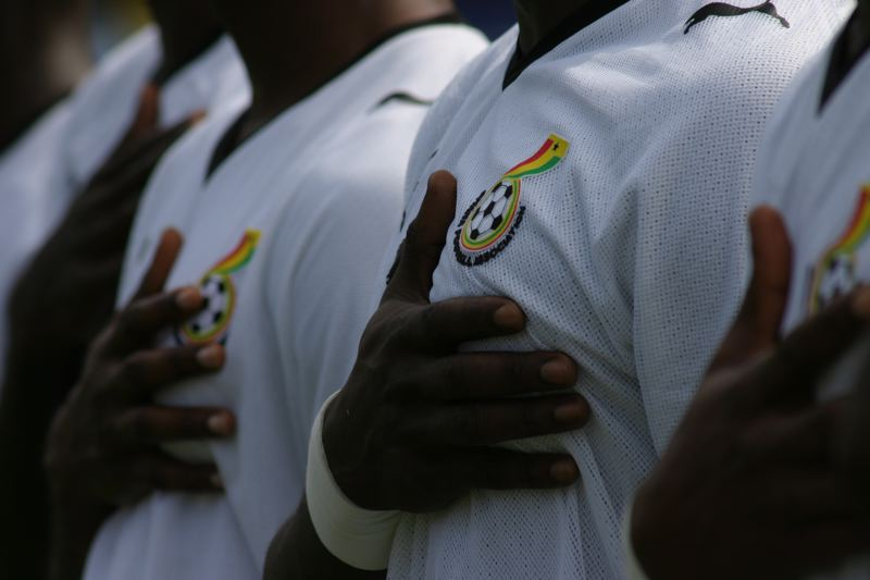 Ghana national football team (Black Stars) badge and national anthem in a 2010 FIFA World Cup Qualification match.